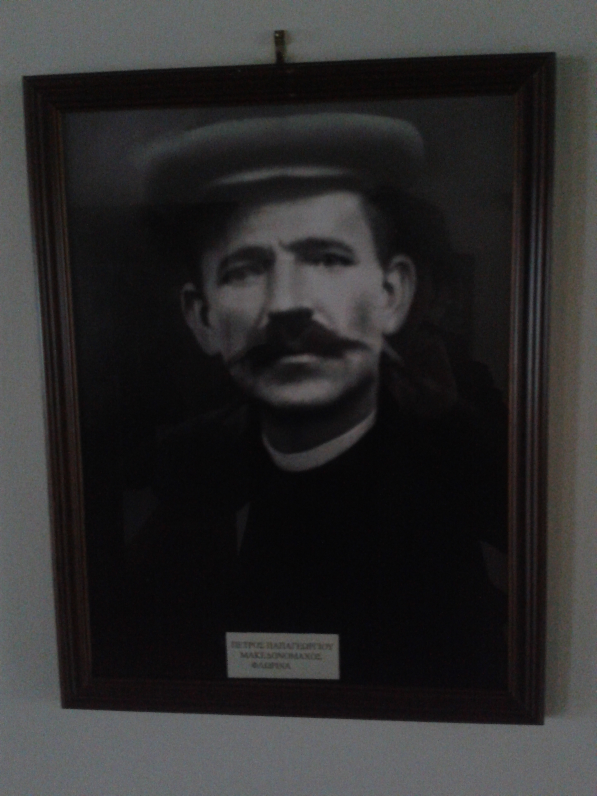 Petros Papageorgiou, Greek Macedonian fighter from Florina.